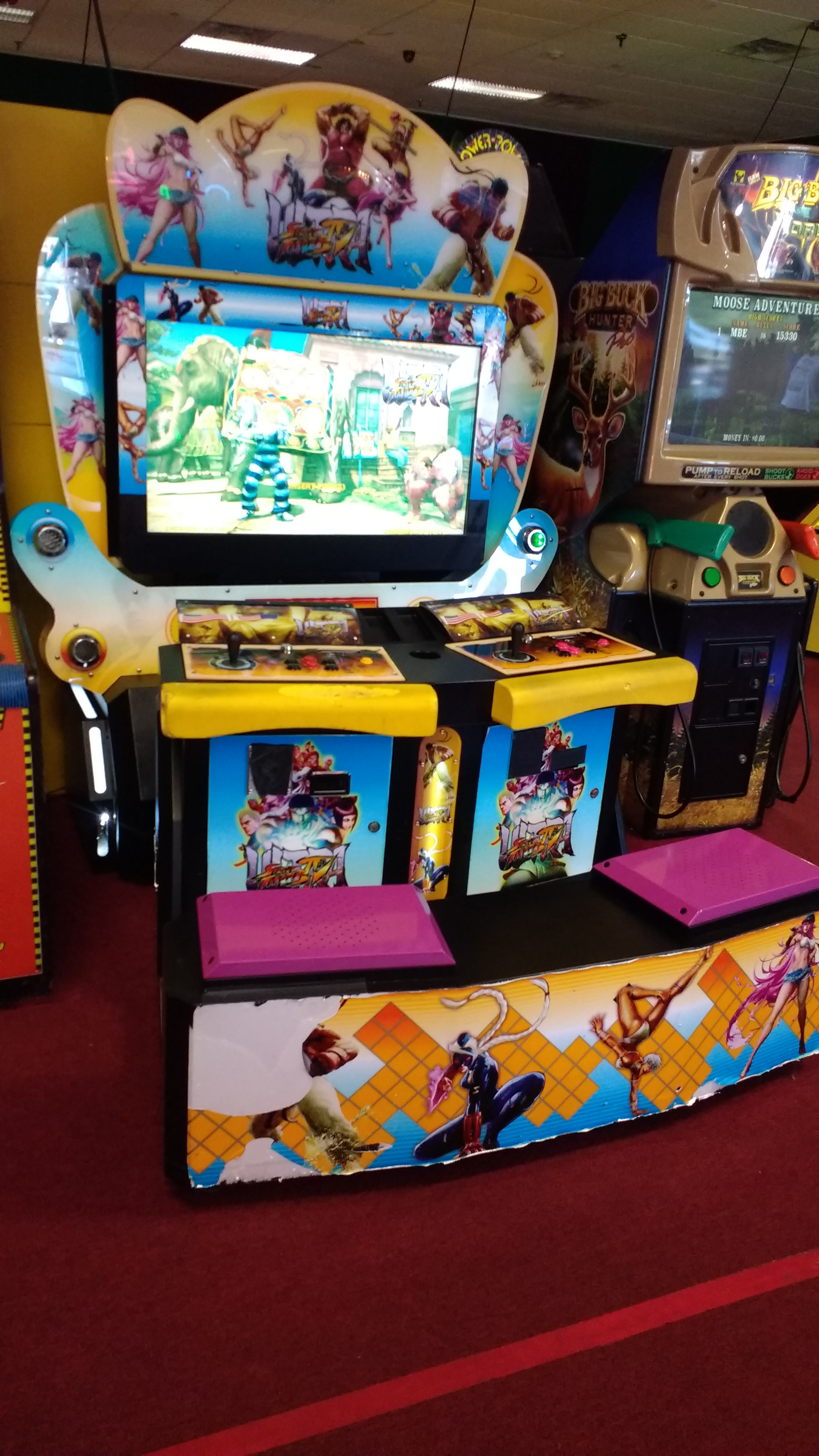 Ultra Street Fighter IV arcade cabinet. I saw this at a local arcade. As far as I can tell, these cabinets are made in China (there don't seem to be any official Capcom dedicated cabinets) and are mostly sold for Asian arcades.